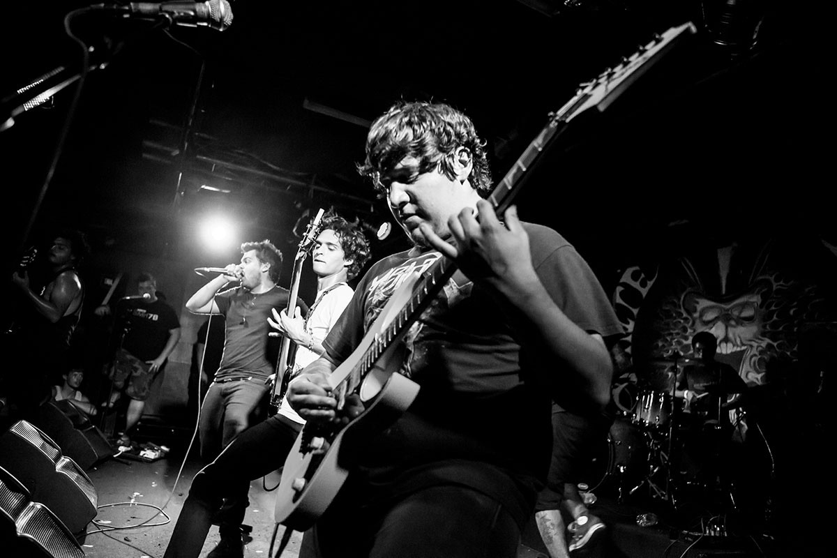 Metal band Darkness Divided playing live